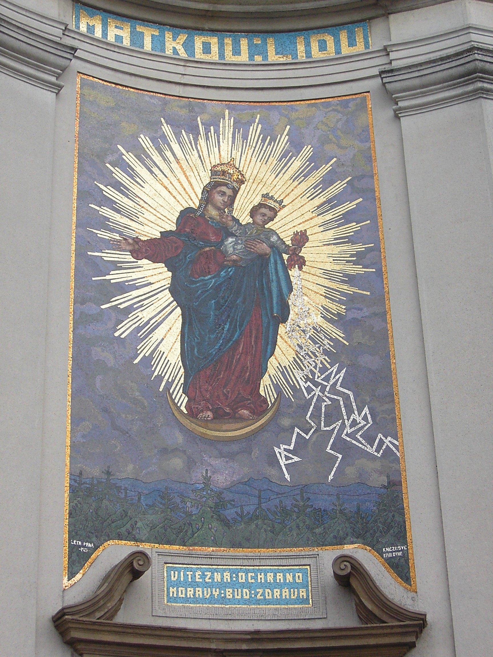 Detail of church on the Hostýn